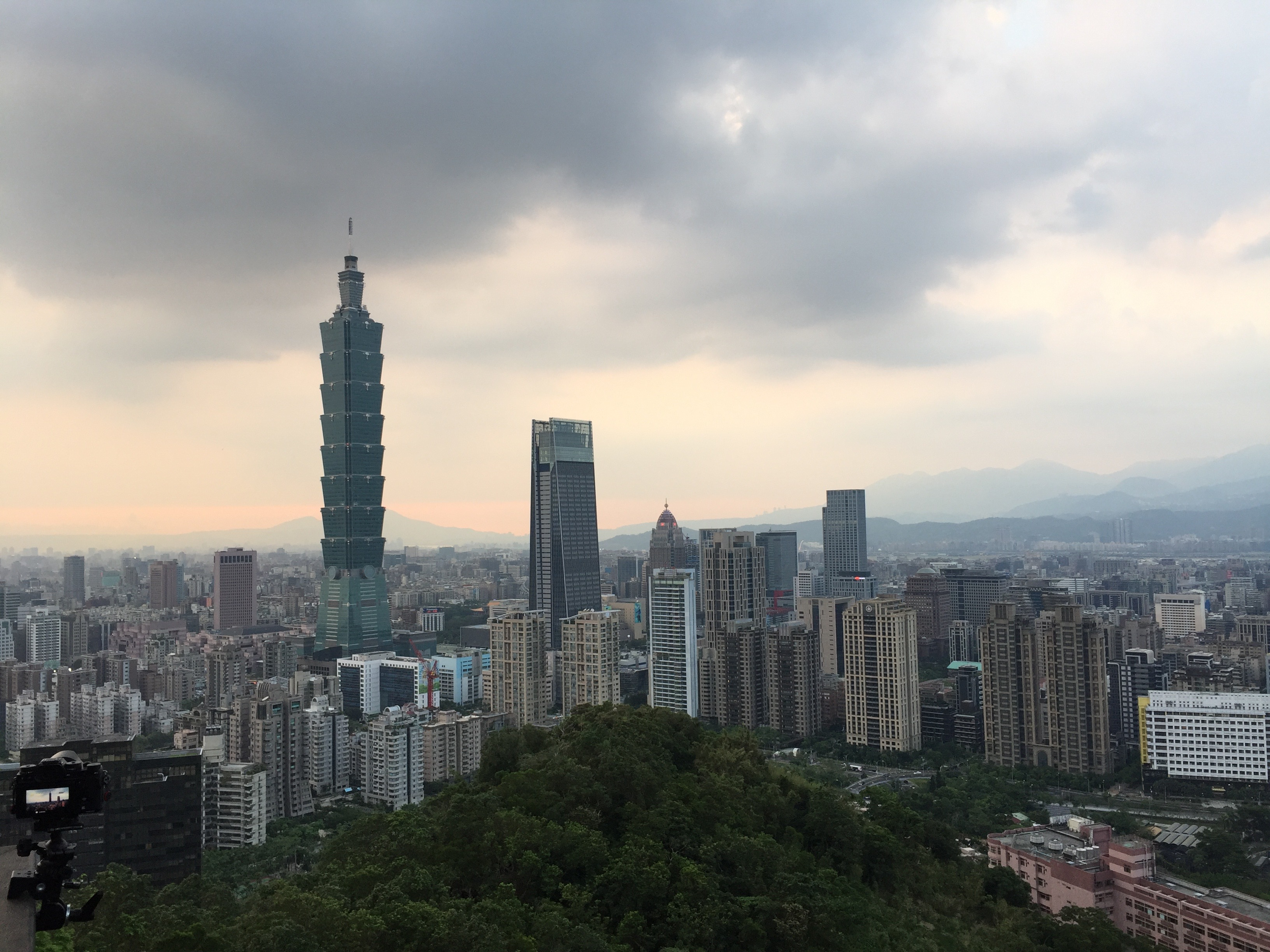 Taipei, Taiwan Skyline, 2017